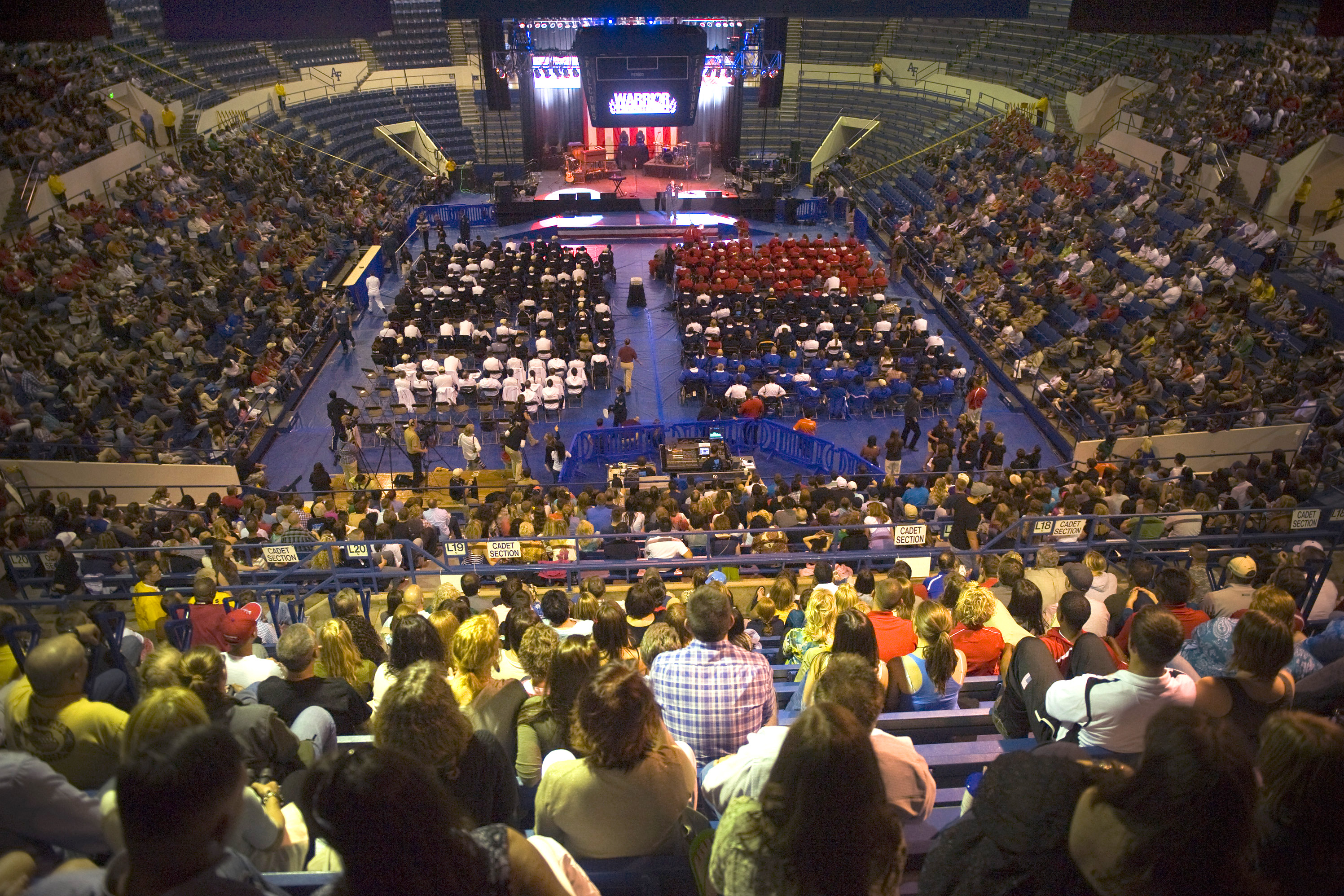 Friends, families and 2011 Warrior Games athletes gather during the 2011 Warrior Games closing ceremony in Colorado Springs, Colo., May 21, 2011.